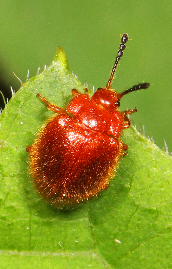 Handsome Fungus Beetle - Stenotarsus blatchleyi, Meadowood Farm SRMA, Mason Neck, Virginia. This bug is tiny